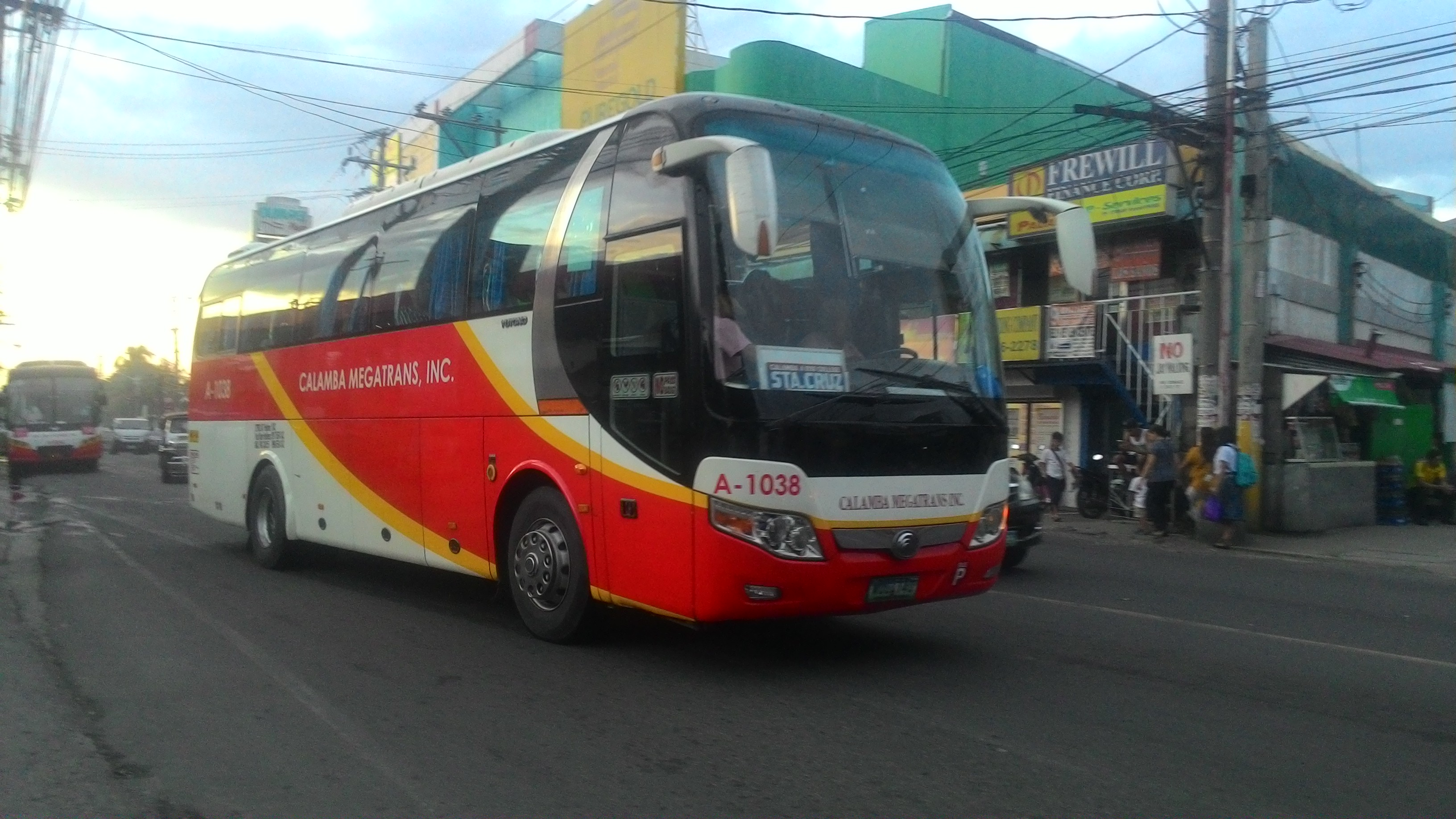 A Calamba Megatrans Inc. bus returning to HM Transport Inc.'s Sta. Cruz terminal. This used to be an LLI bus before JAC Liner returned the franchise to HMTI.